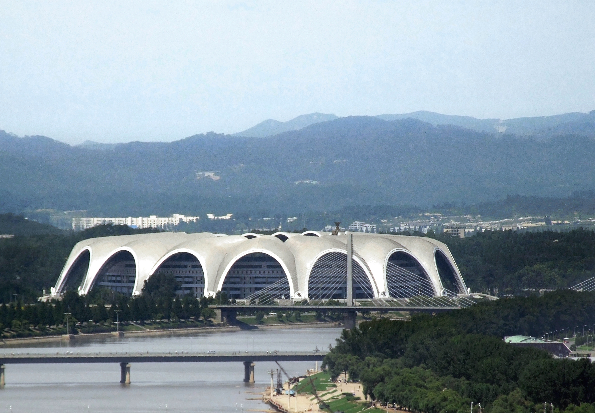 Rŭngrado May First Stadium (view from Yanggakdo International Hotel)